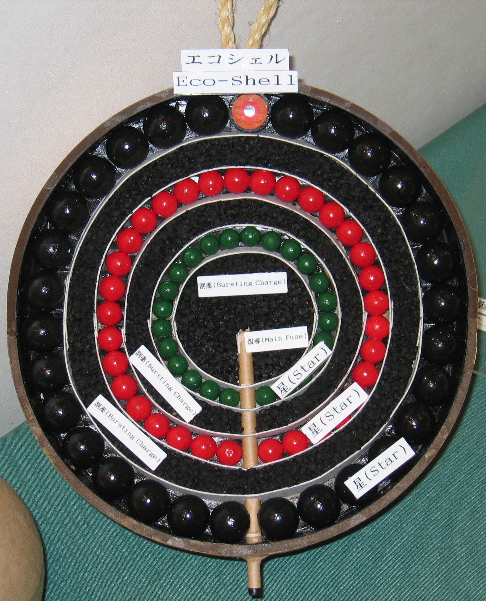 Shell construction, Shiga, Japan 20050510 Photo: Anders Hållinder This picture is free to use / Anders Hållinder